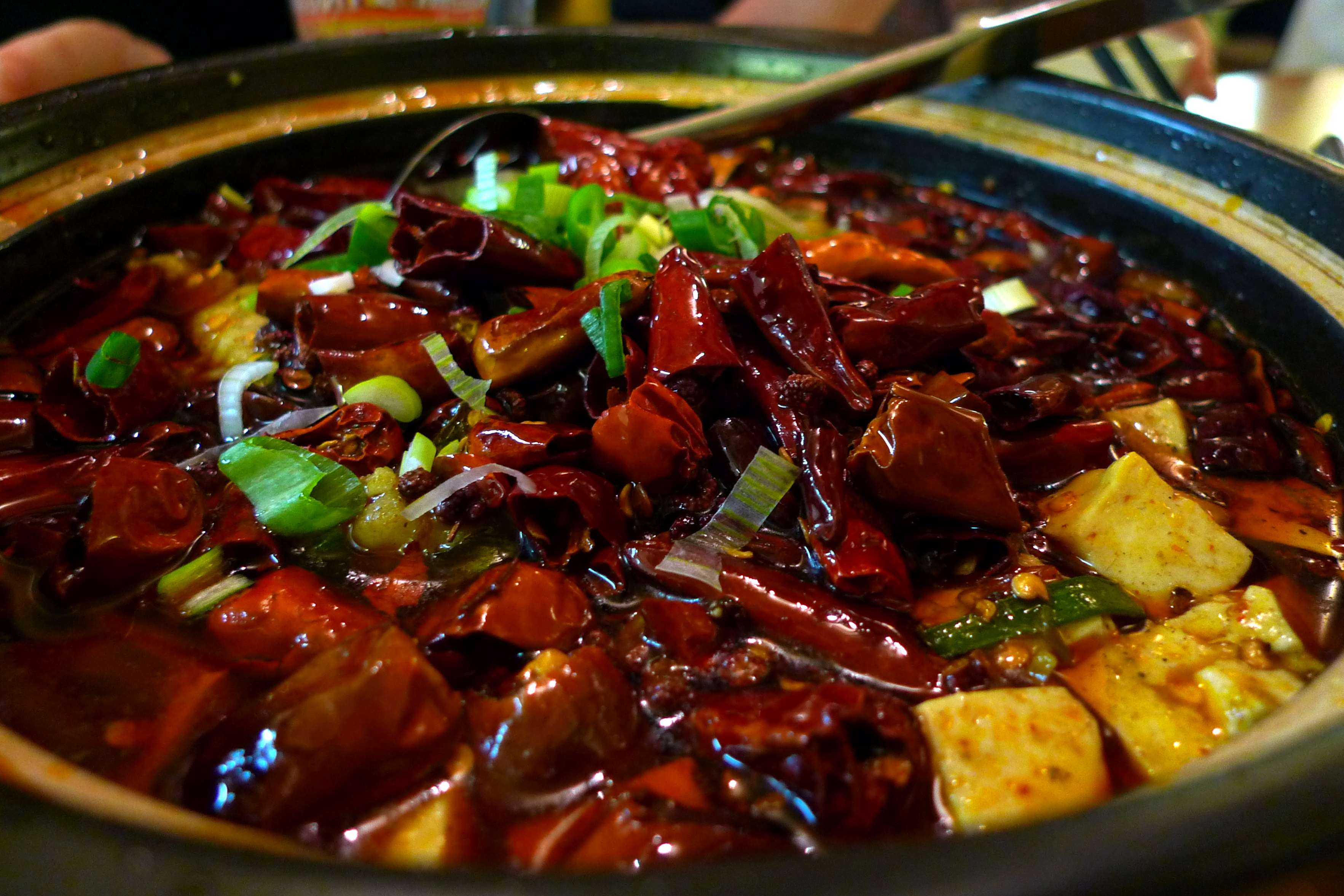 A close-up of the tasty fish hotpot. At Chilli Cool, Leigh Street. (Photo of whole pot.)